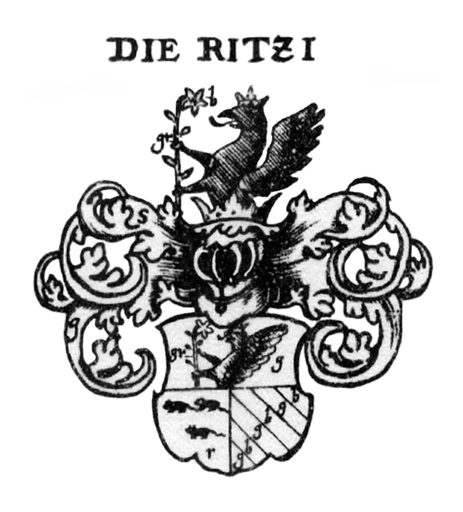 Coat of arms of Ritz (Ritzi)